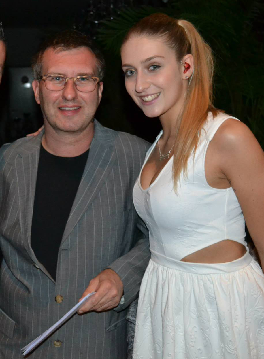 Singer Axeela & Film Director jan verheyen at the ASAP Awards 2.0